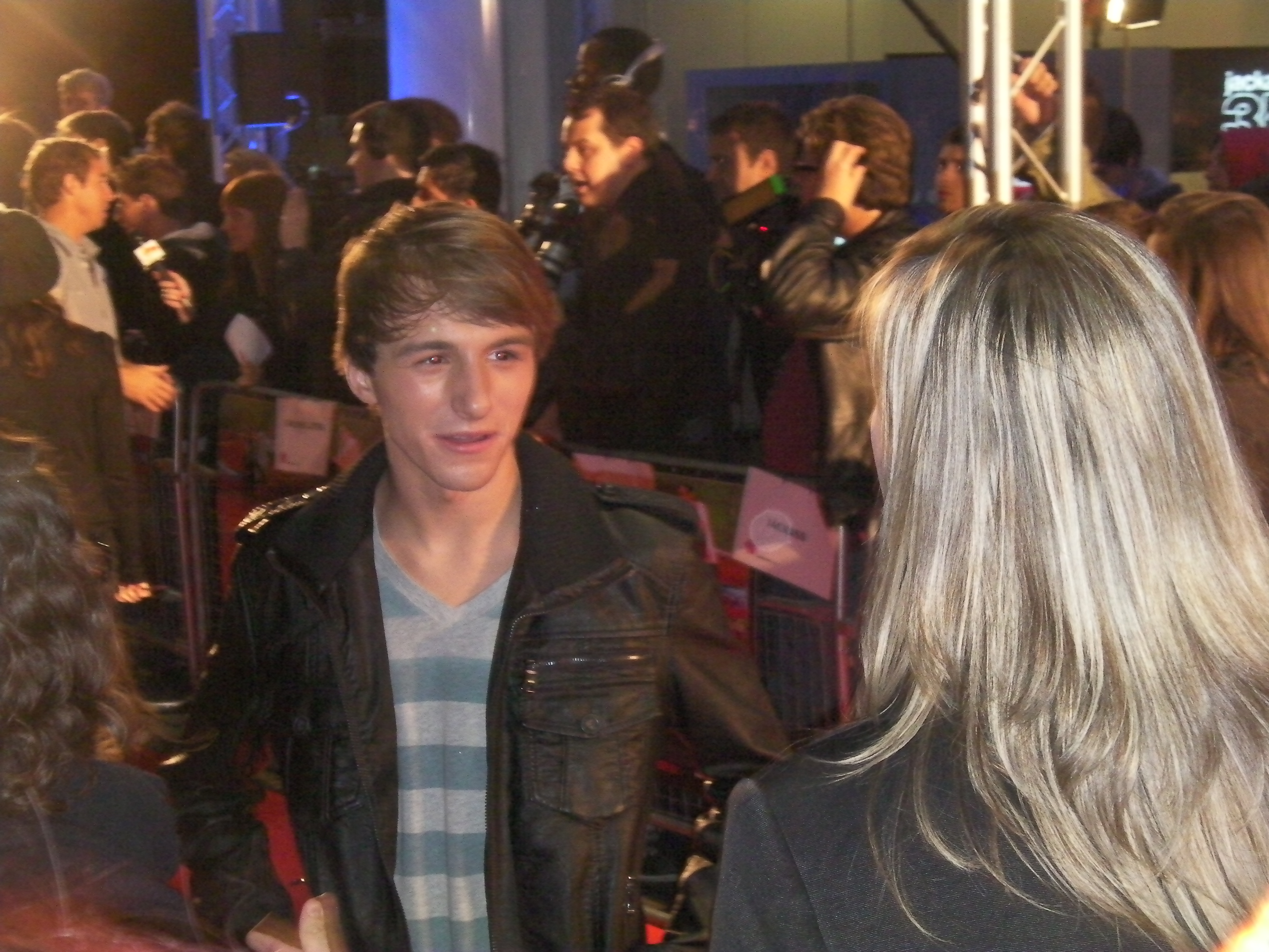 Lucas Cruikshank at Jackass 3D London Premiere 2nd November 2010.